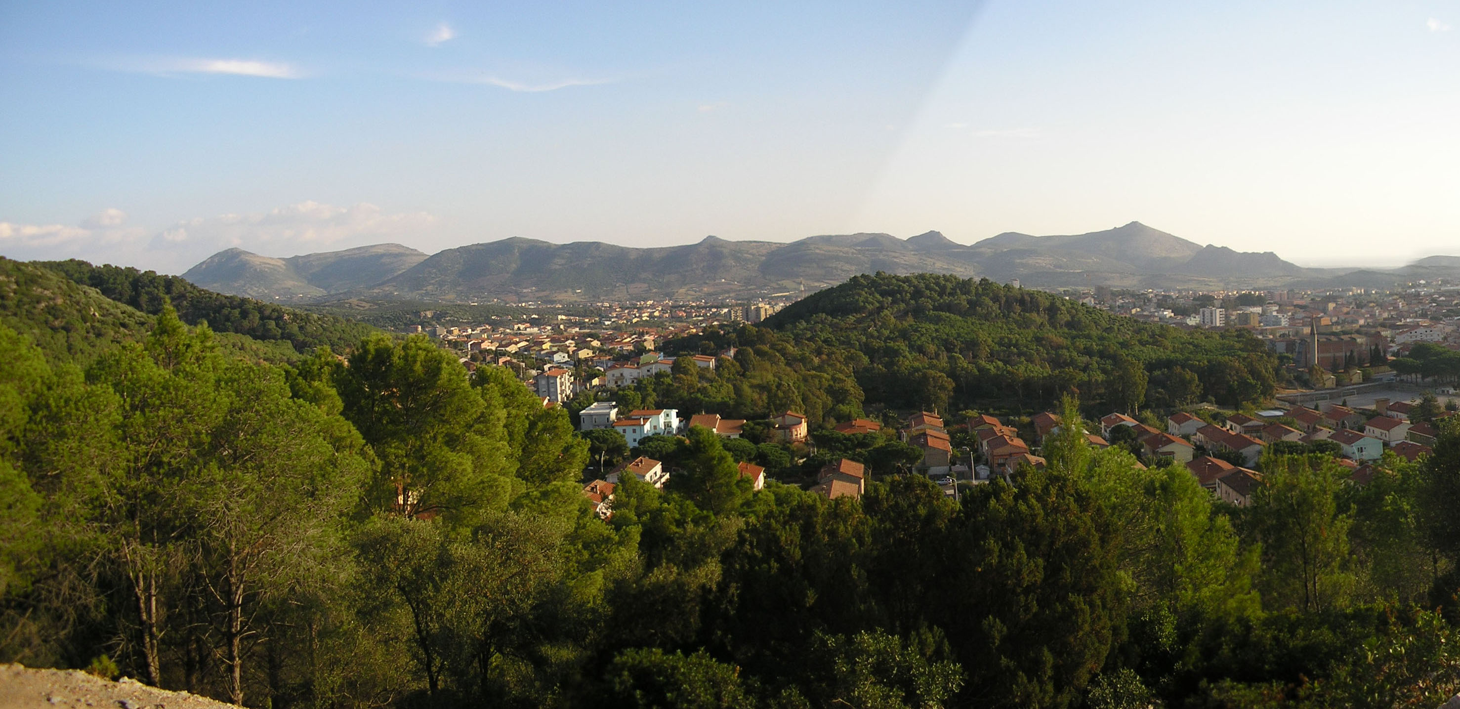 View of Carbonia, Sardinia, Italy, from Monte Leone